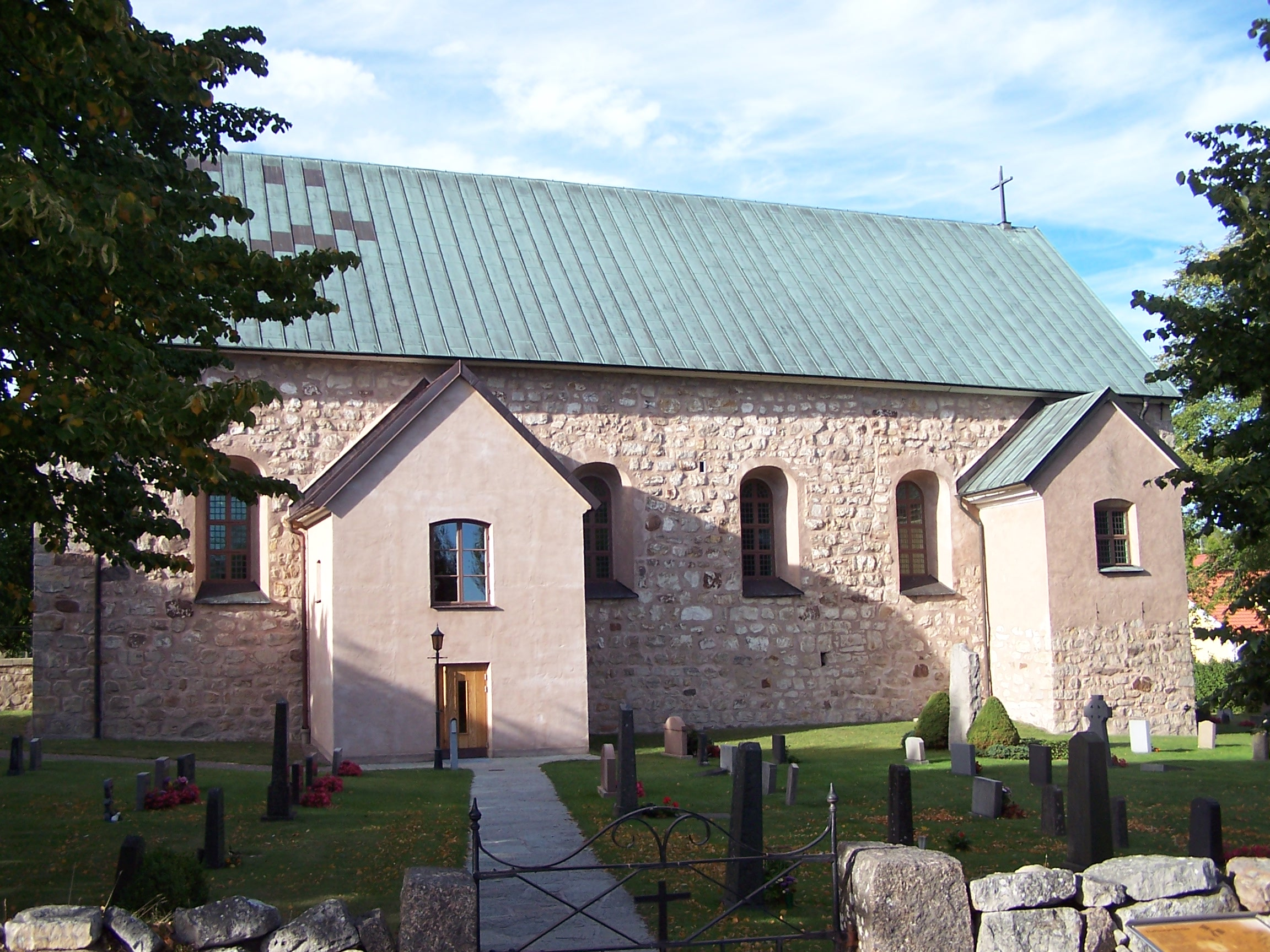 Halltorp church, Sweden - Exterior